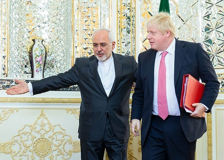 Iranian foreign minister Mohammad Javad Zarif meeting with UK foreign minister Boris Johnson in Tehran 2017-12-09 01